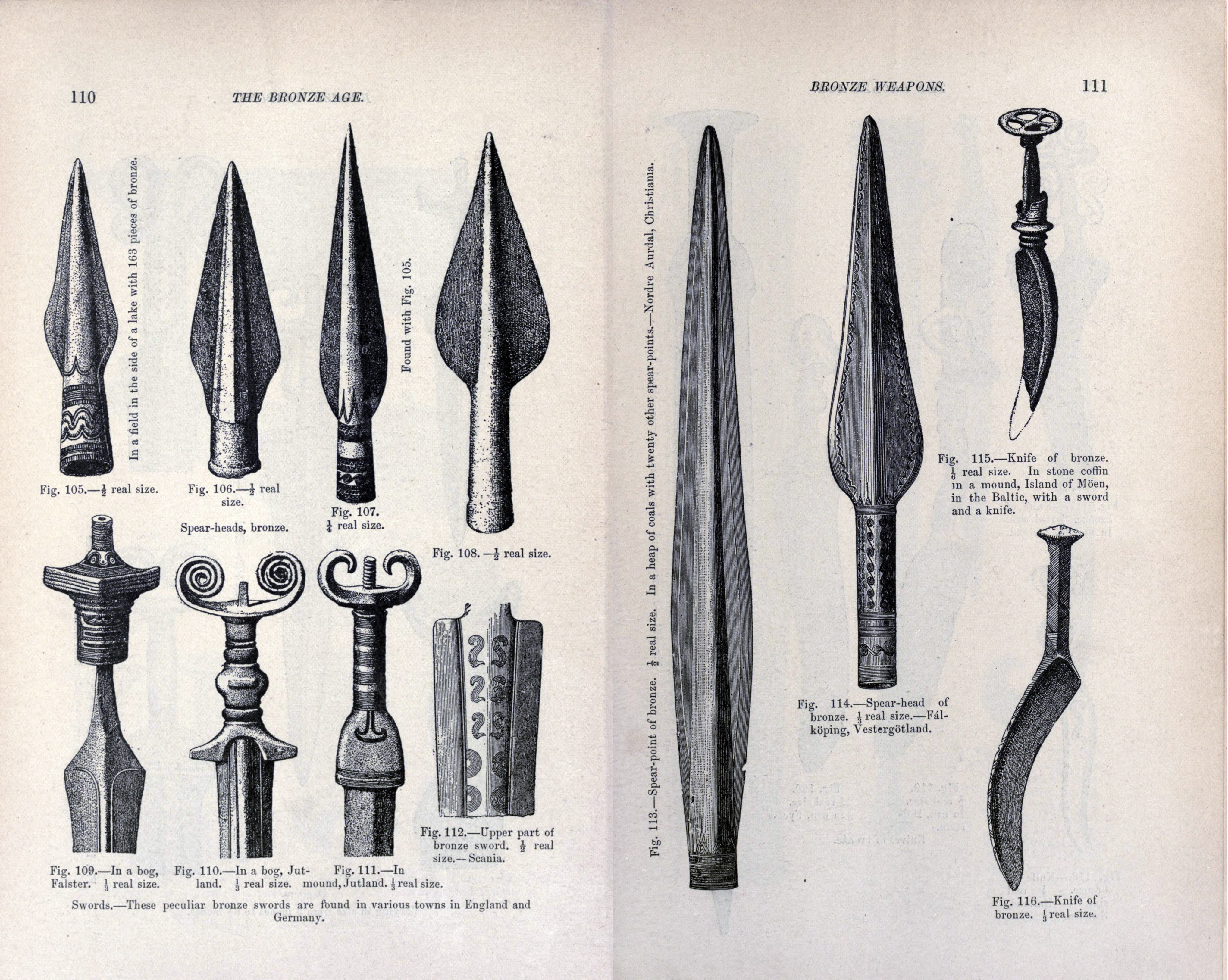 Pages of The Viking Age.